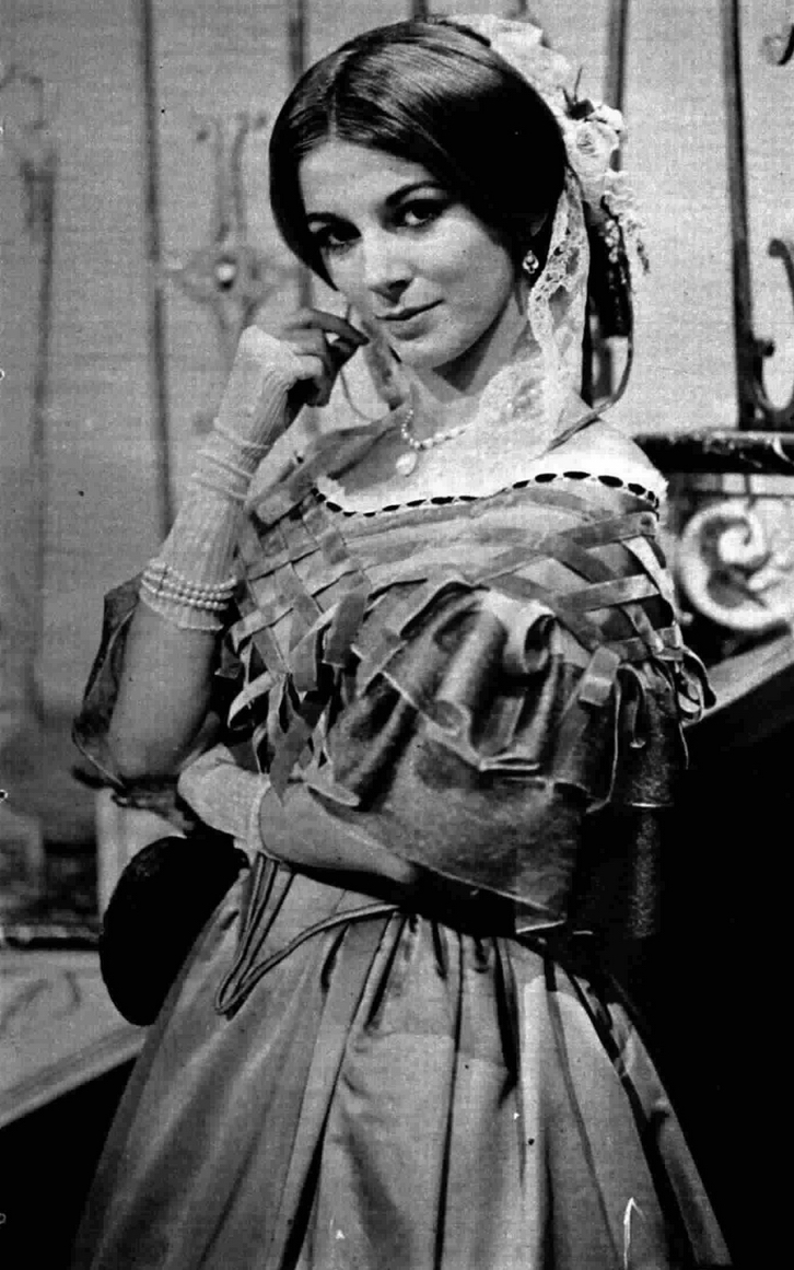 Italian actress Stefania Casini on stage, Rome, 1971